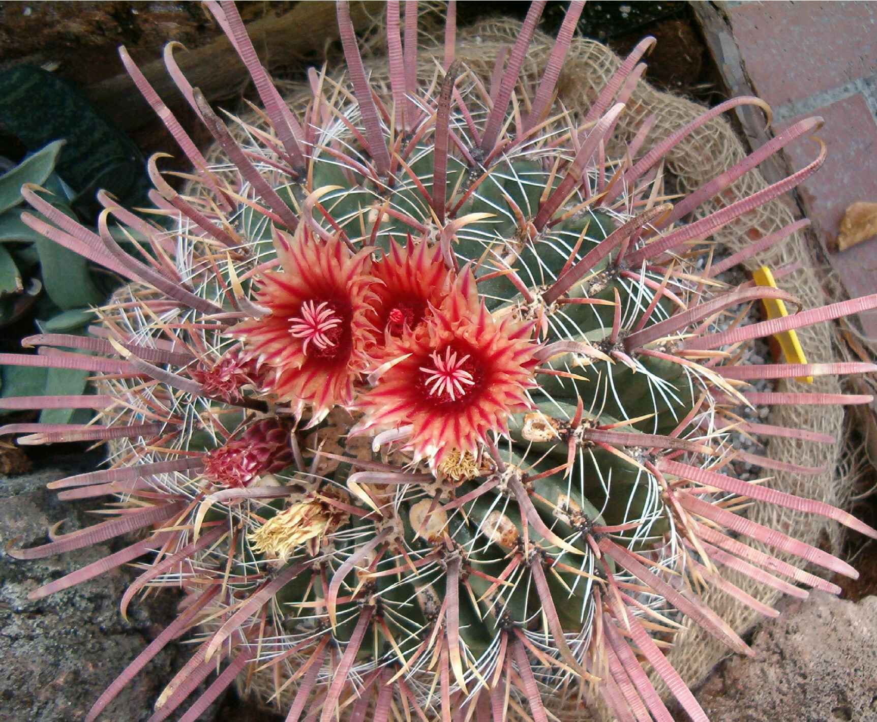 Habitus and Flowers Location: Botanical Gardens Berlin